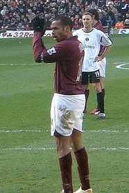 Thierry Henry, playing for Arsenal against Charlton Athletic